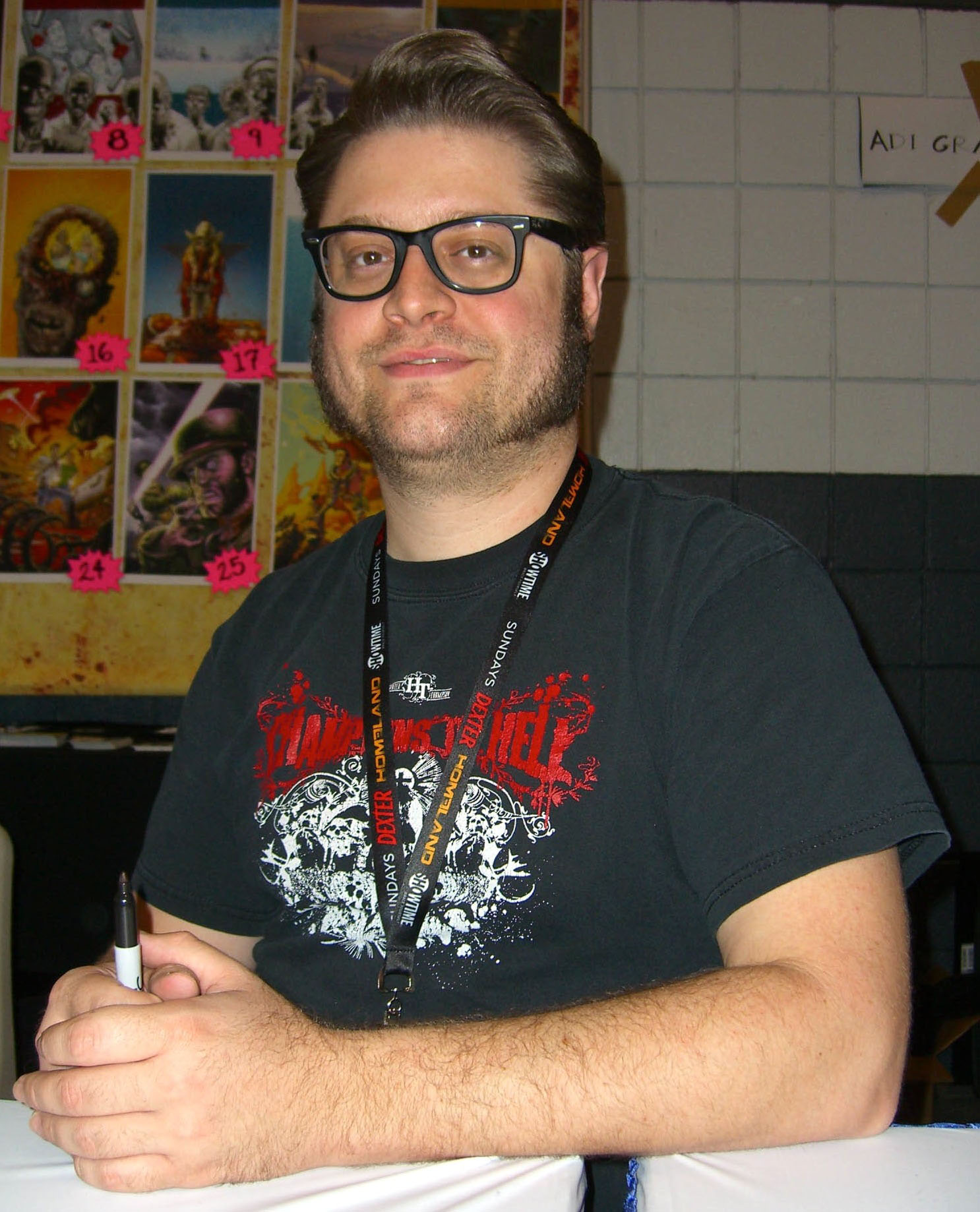 Comics creator Tony Moore during an October 16, 2011 appearance at the New York Comic Con in Manhattan. This photo was created by Luigi Novi. It is not in the public domain, and use of this file outside of the licensing terms is a copyright violation.